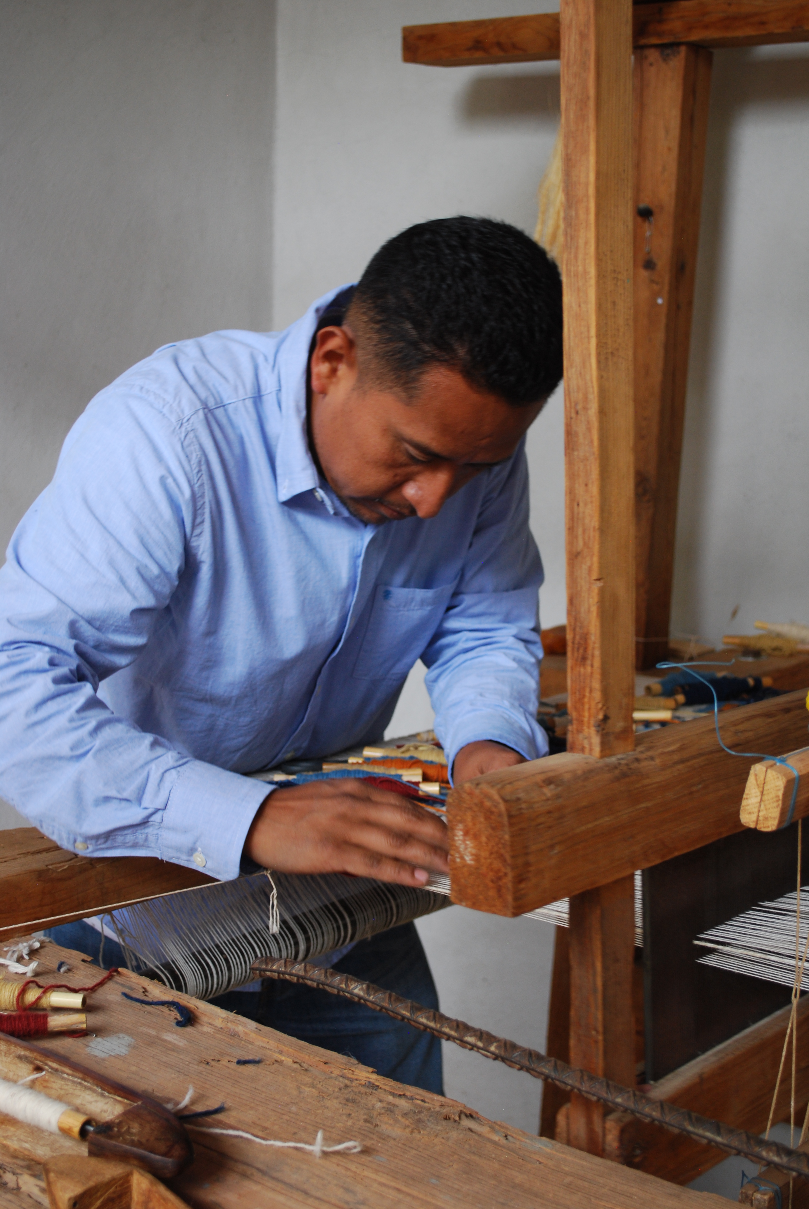 Porfirio at loom at the Porfirio Gutierrez family workshop in Teotitlan del Valle, Oaxaca, Mexico